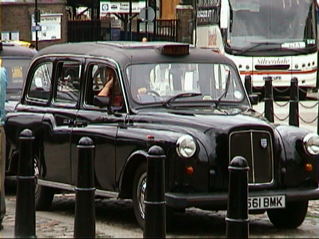 A typical London Taxi.